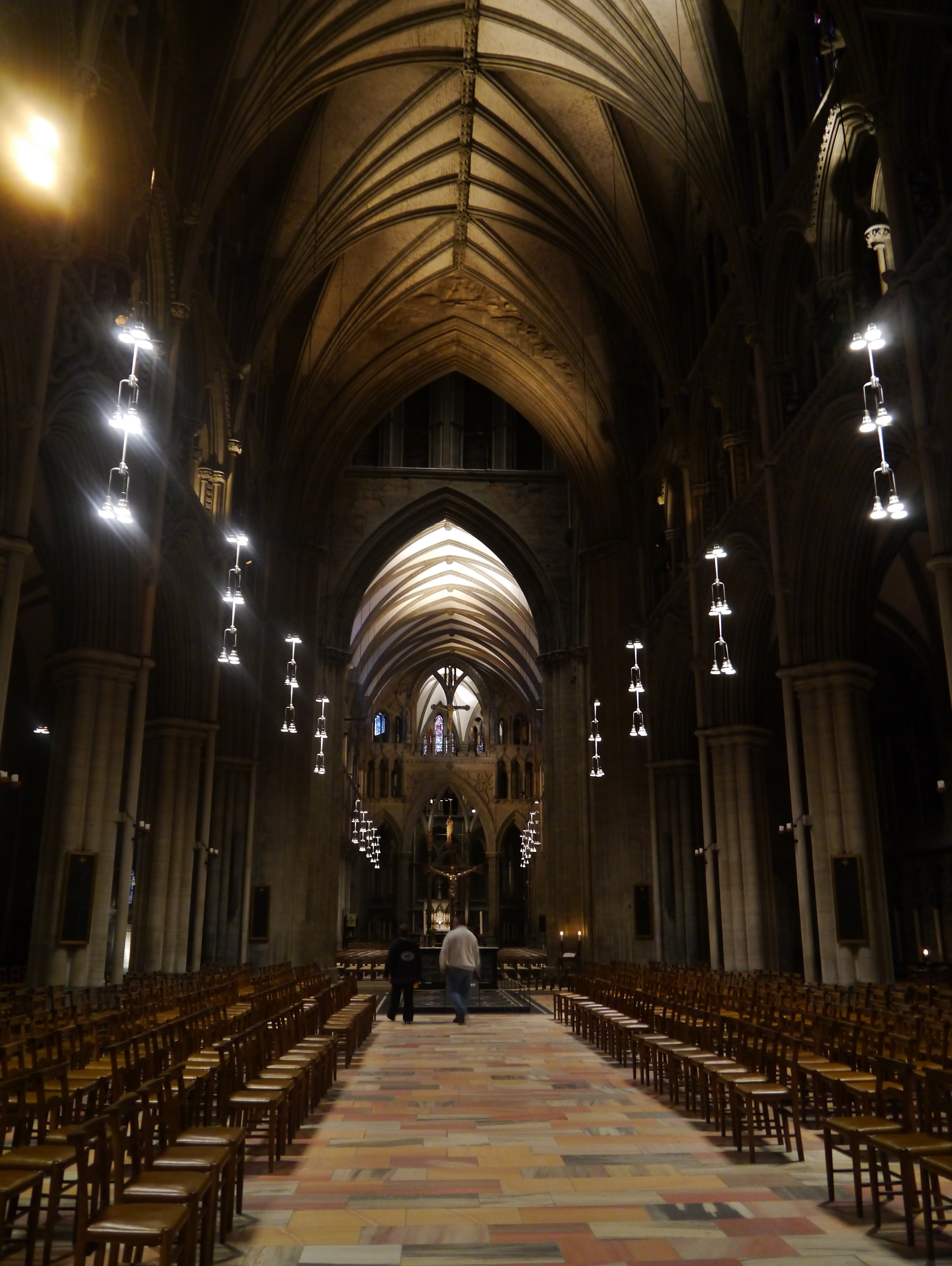 Nave of Nidaros Cathedral, Trondheim, Sör-Tröndelag County, Central Norway